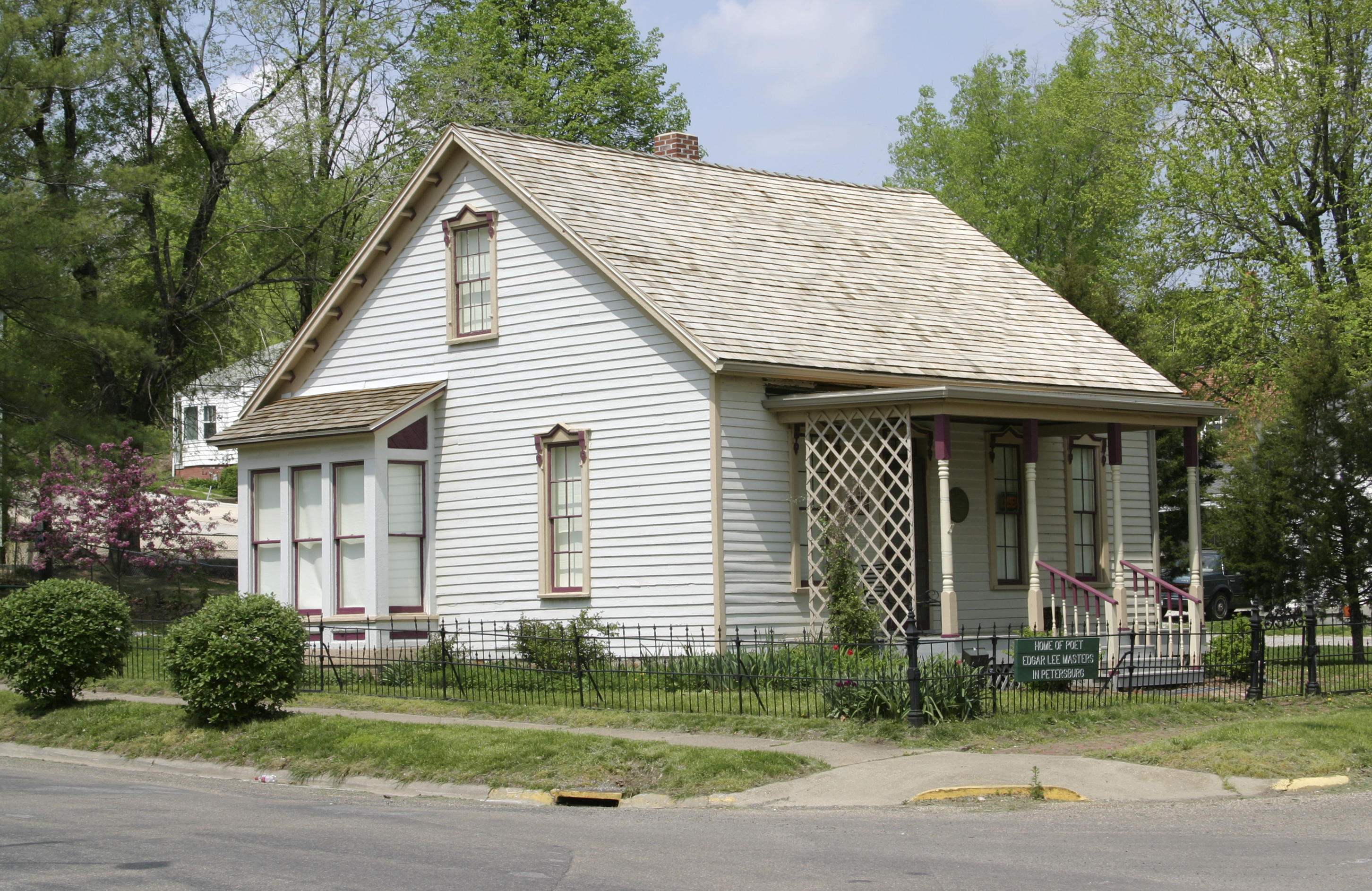 Homw of poet Edgar Lee Masters, Petersburg Illinois USA